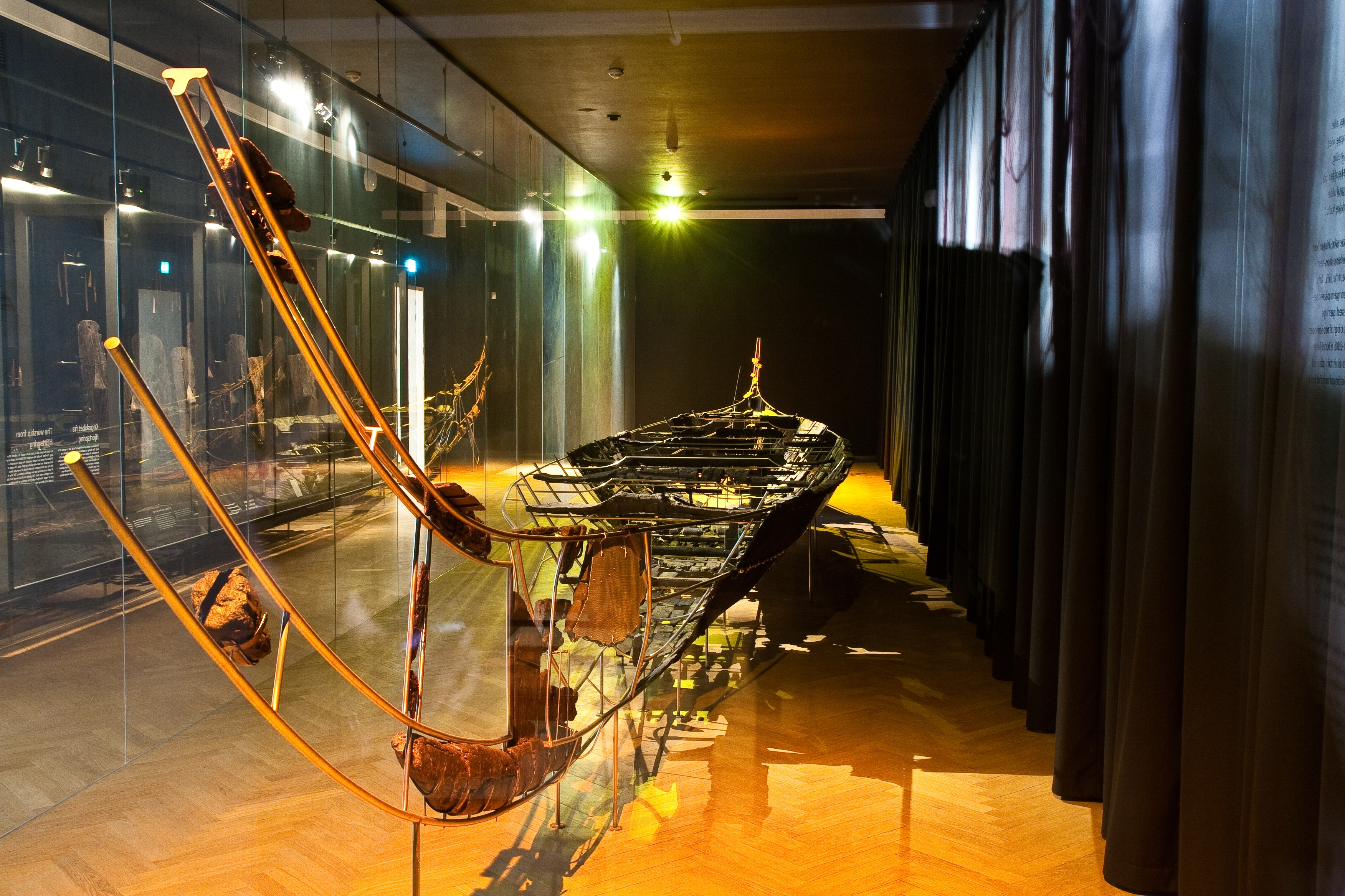 The Hjortspring boat is a vessel designed as a large canoe, from the Scandinavian Pre-Roman Iron Age, that was excavated in 1921–1922 in Hjortspring Mose at Als in Sønderjylland. It was a clinker-built wooden boat 21 m long (outer length), 13 m long inside and 2 m wide with space for a crew of 22–23 men who propelled the boat with paddles: it was built around 300-400 BC. (Hjortspring_boat)